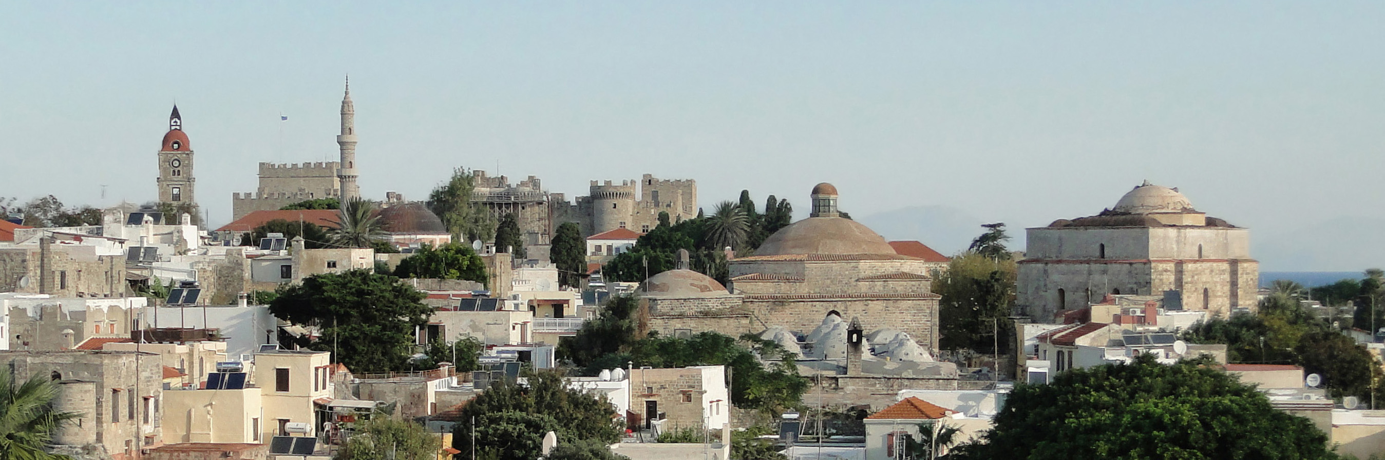 Medieval City of Rhodes, Greece